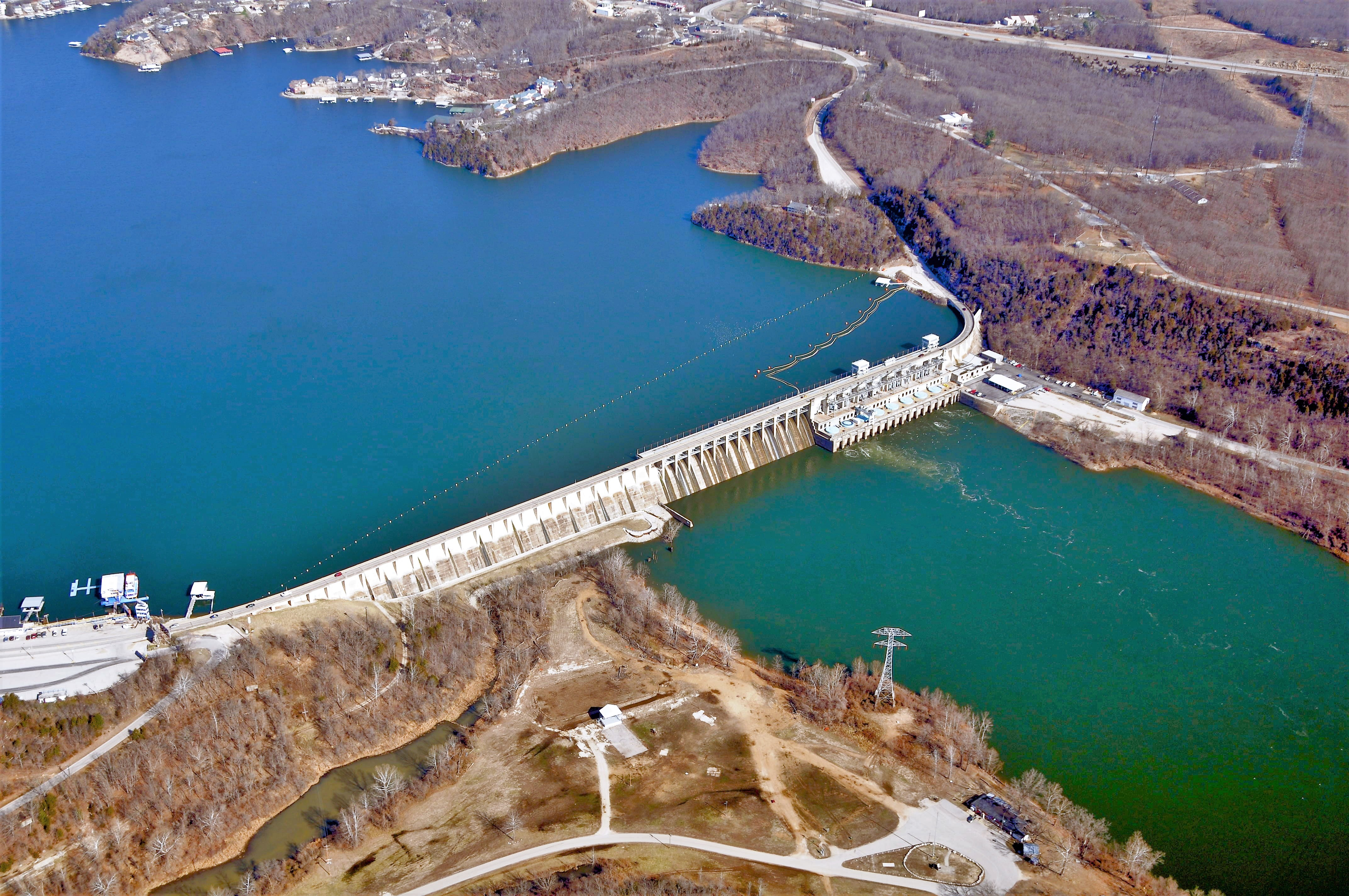 Aerial Photograph of Bagnell Dam, Lake of the Ozarks-Osage River, Missouri